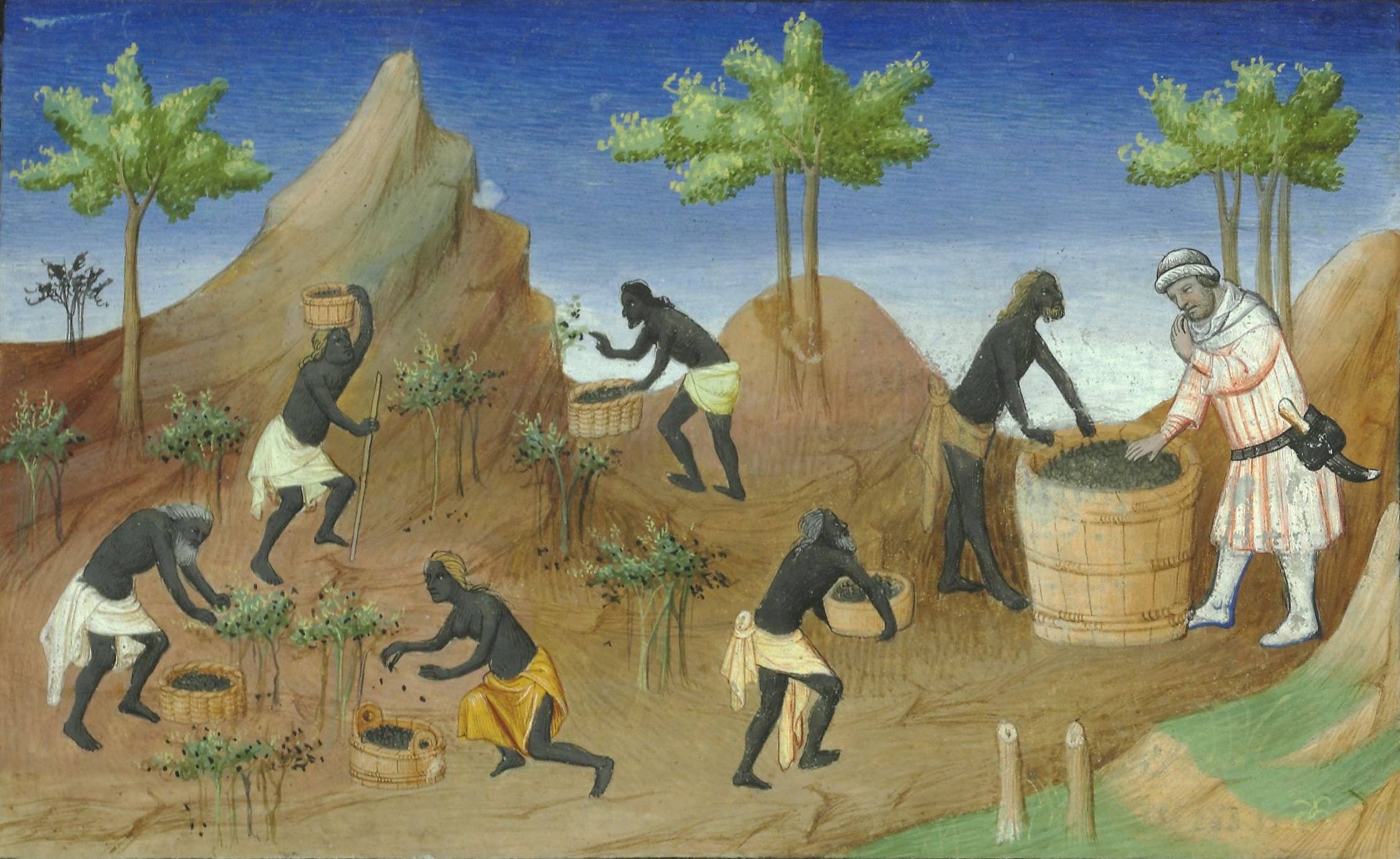 Illustration from Le livre des merveilles de Marco Polo ("The Adventures of Marco Polo").